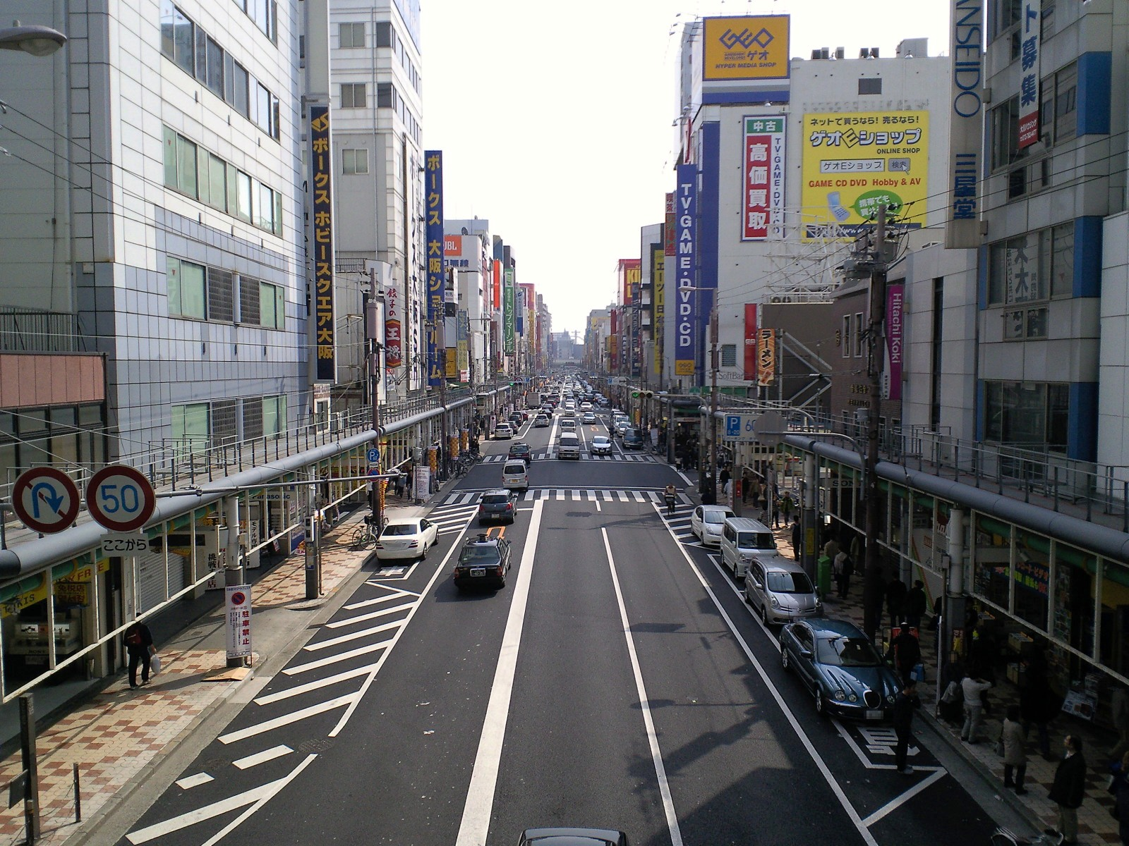 Den-Den Town in Osaka, Japan